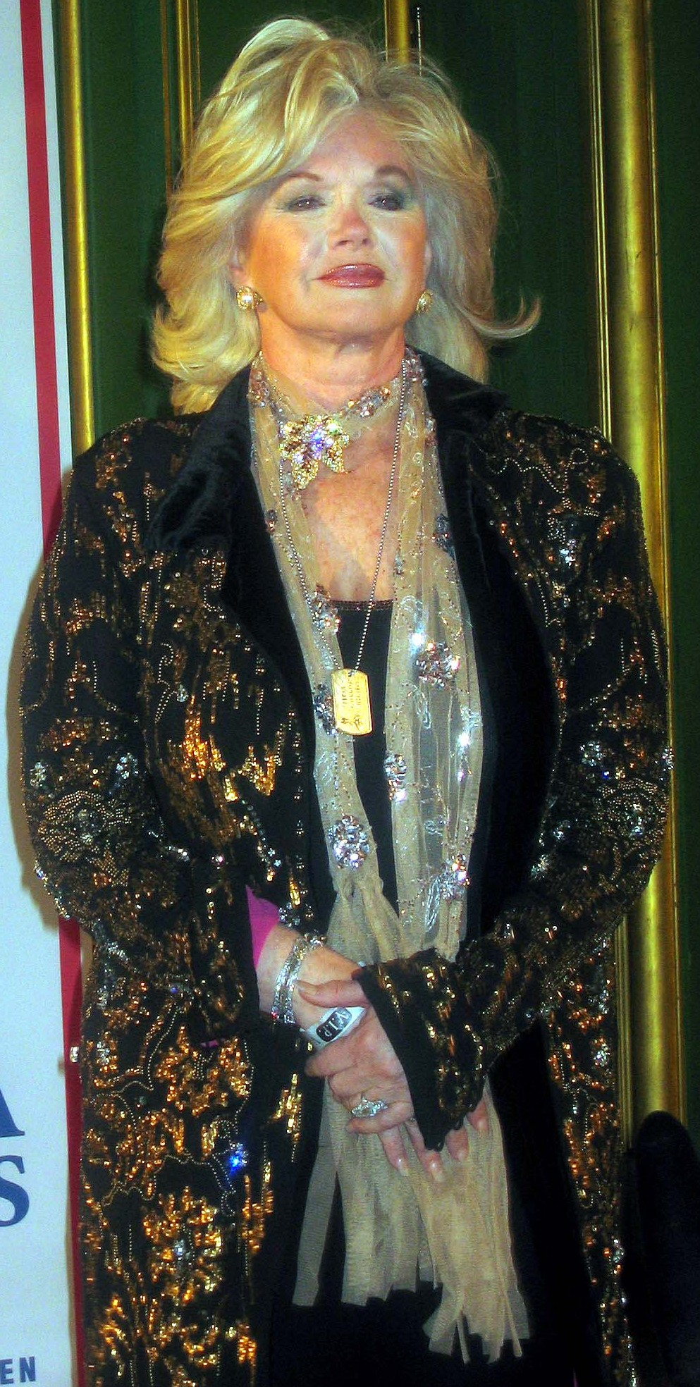 Entertainer Connie Stevens, co-host of the Heroes Red, White and Blue Inaugural Ball on Jan. 20 and a longtime USO supporter, praised the men and women in uniform. She reminded them that "your service does not go unnoticed" and that the nation stands united behind them. Photo by Donna Miles